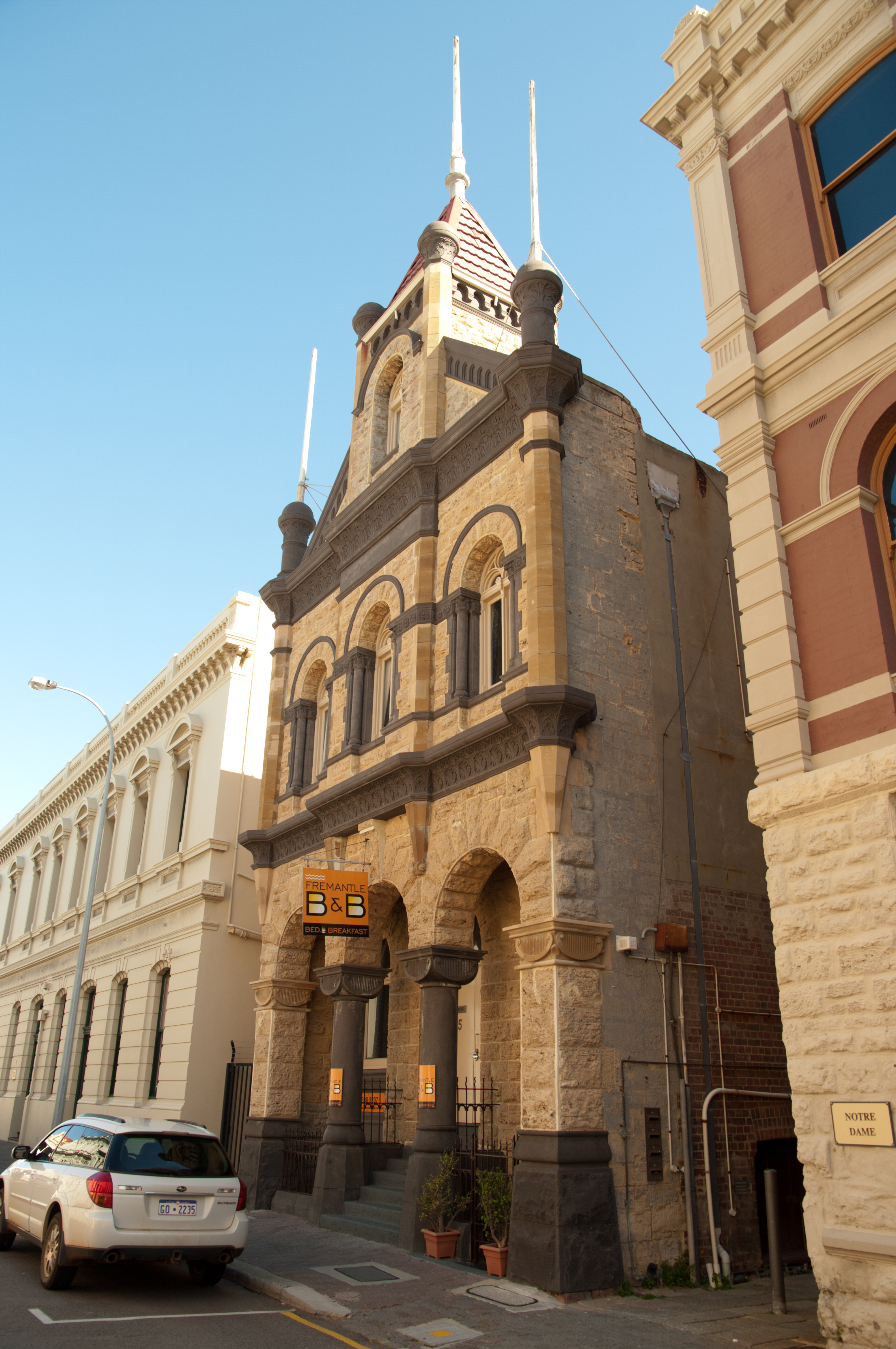 Tarantella Night Club, former German Consulate